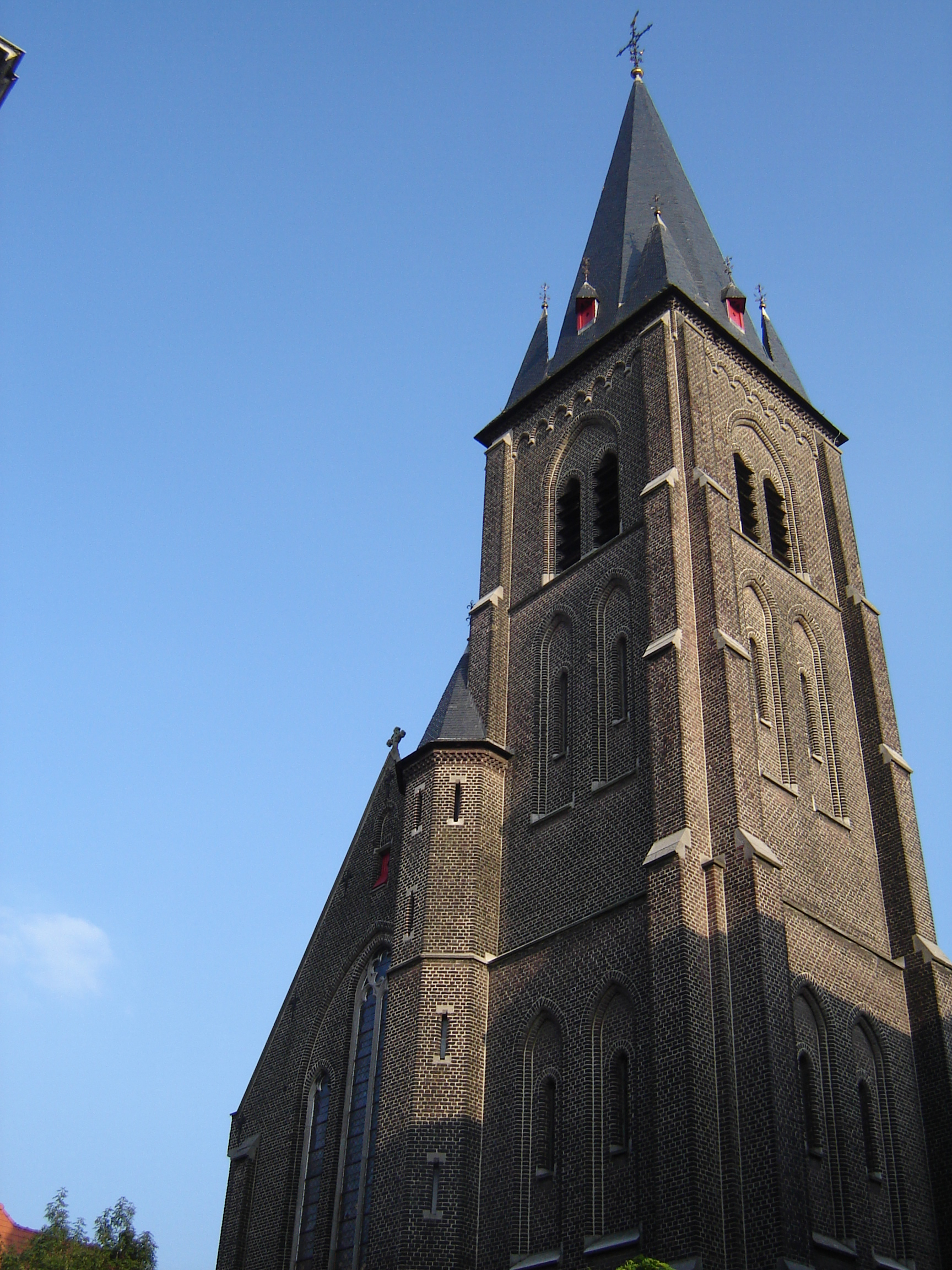 Church of Saint Anthony of Padua in the Heirnis quarter in Gent. Gent, East Flanders, Belgium.